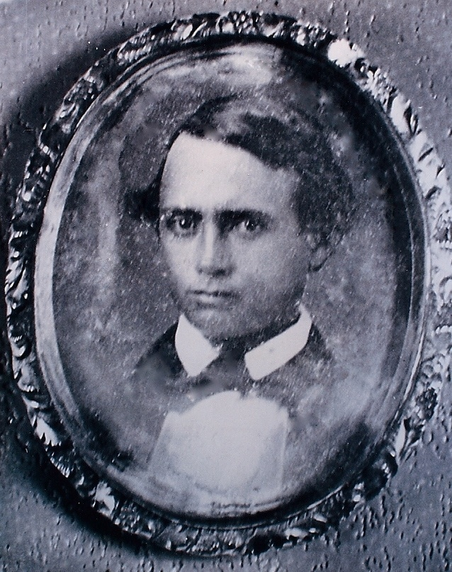 William Keolaloa Kahānui Sumner, Jr. (c. 1816 – May 25, 1885) was a high chief of the Kingdom of Hawaii, who was also a politician and major landowner. He later contracted leprosy and was exiled to Kalaupapa, where he served as luna (superintendent) of the leper colony.